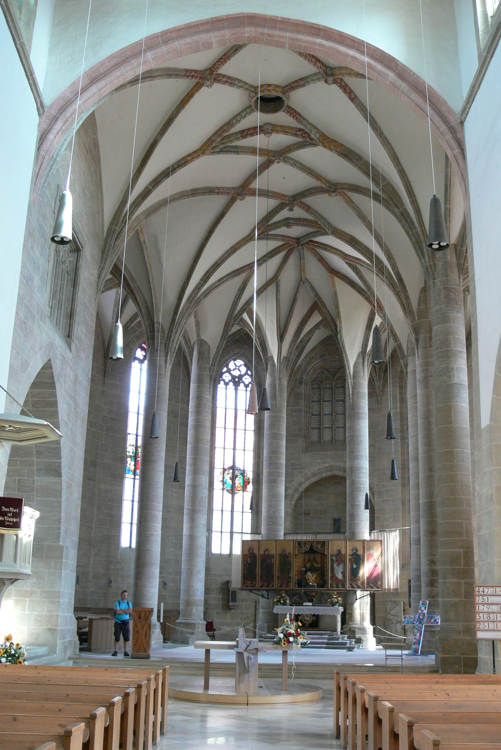 St.Andreas parish church in Weißenburg ( Bavaria ). Gothic choir ( 1425 ).